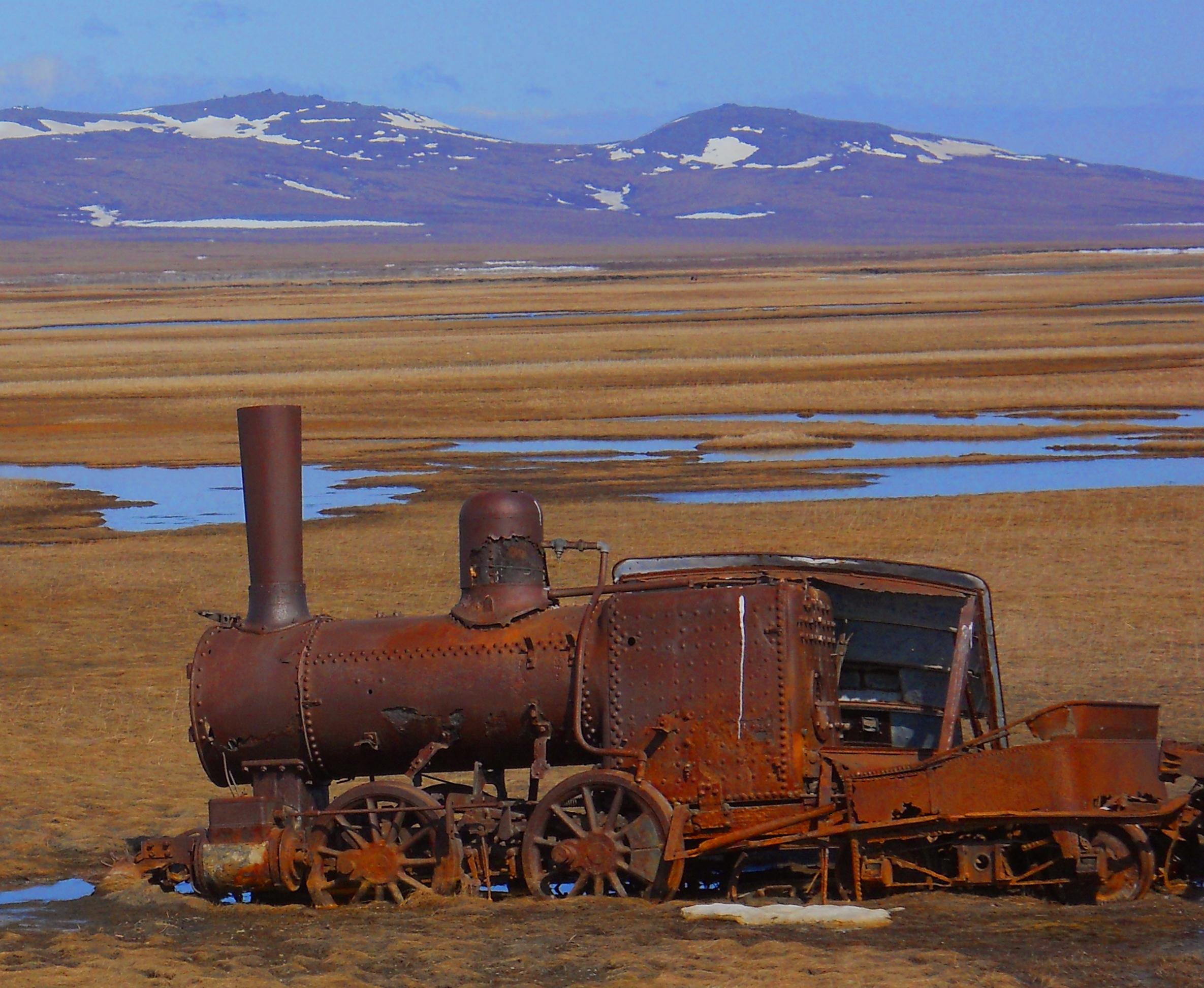 Just outside of Solomon, Alaska a National Register of Historic Places location.